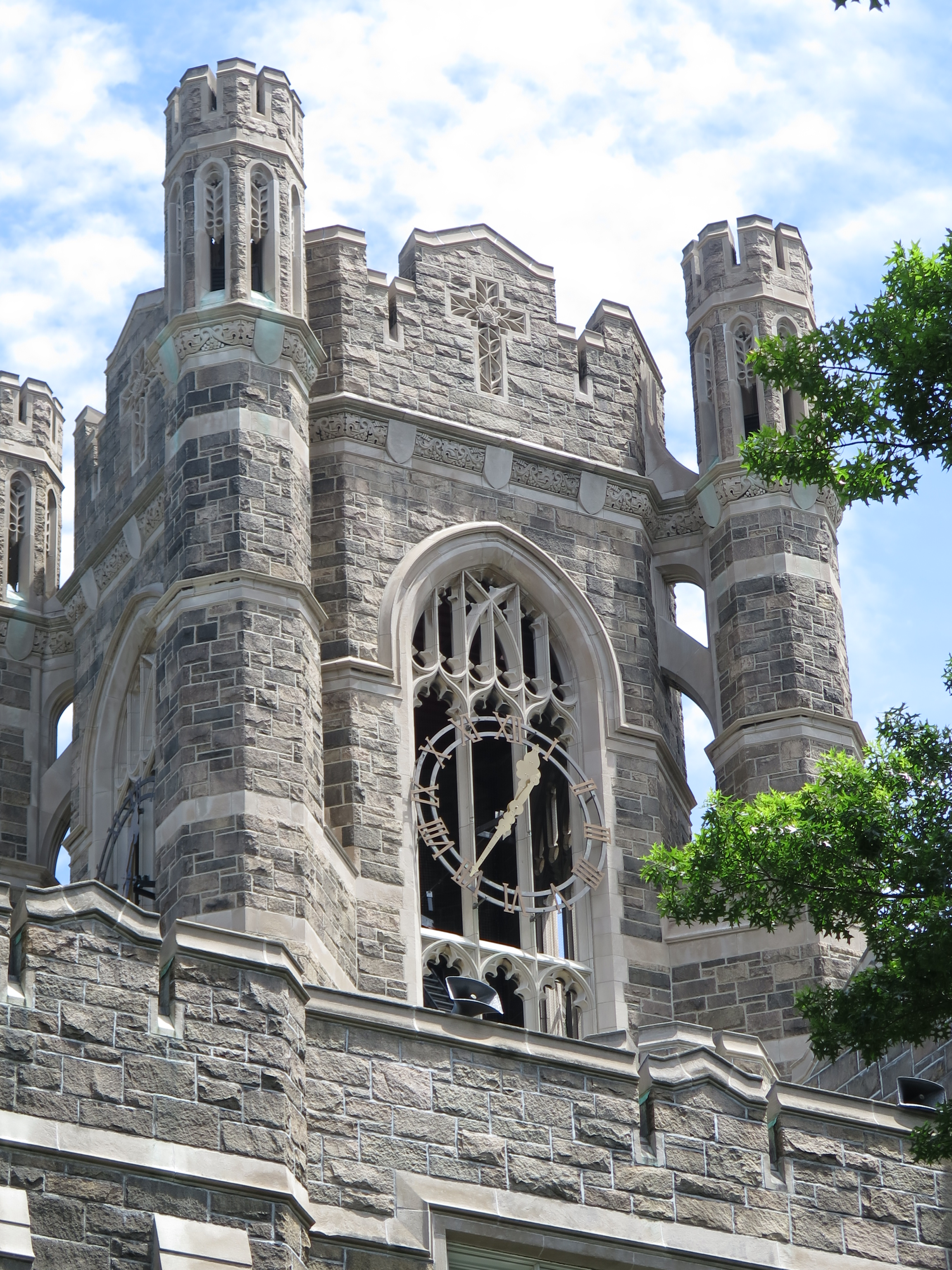 Tower of Keating Hall, Fordham University